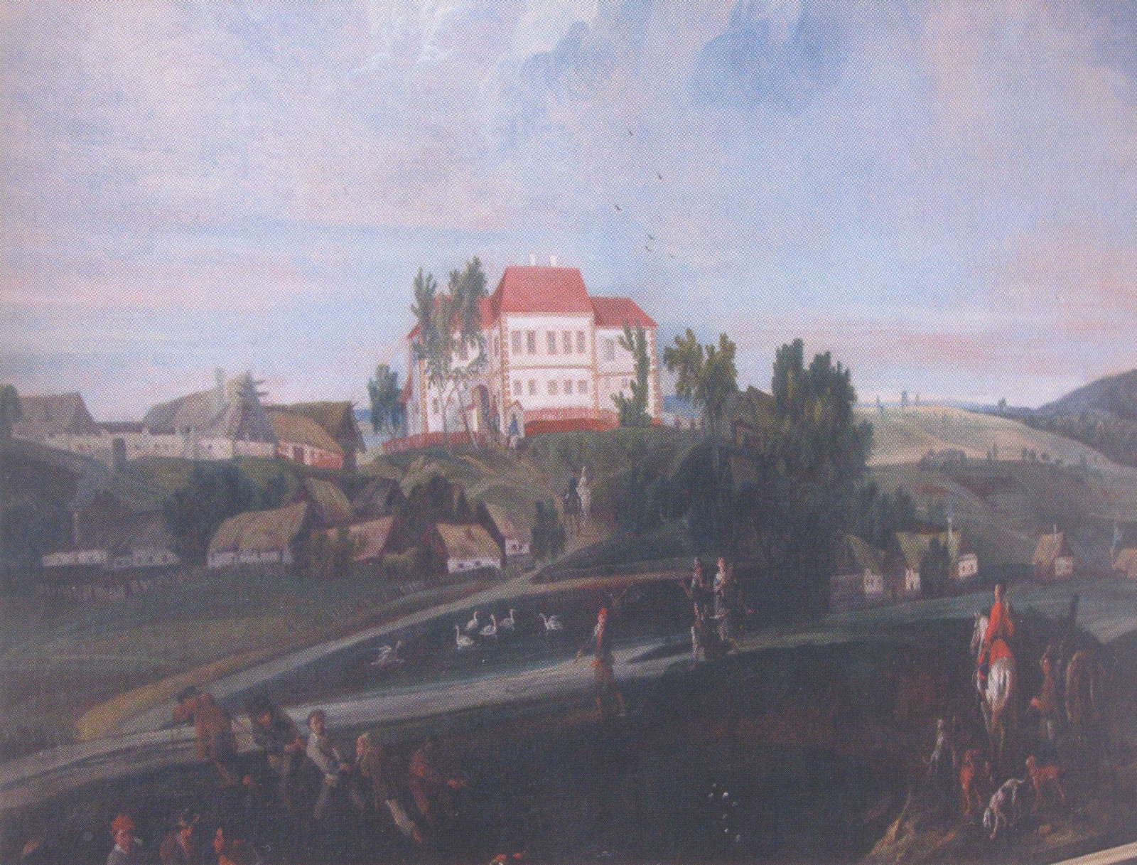 Svébohy fortress, now part of Horní Stropnice, České Budějovice district, Czech Republic